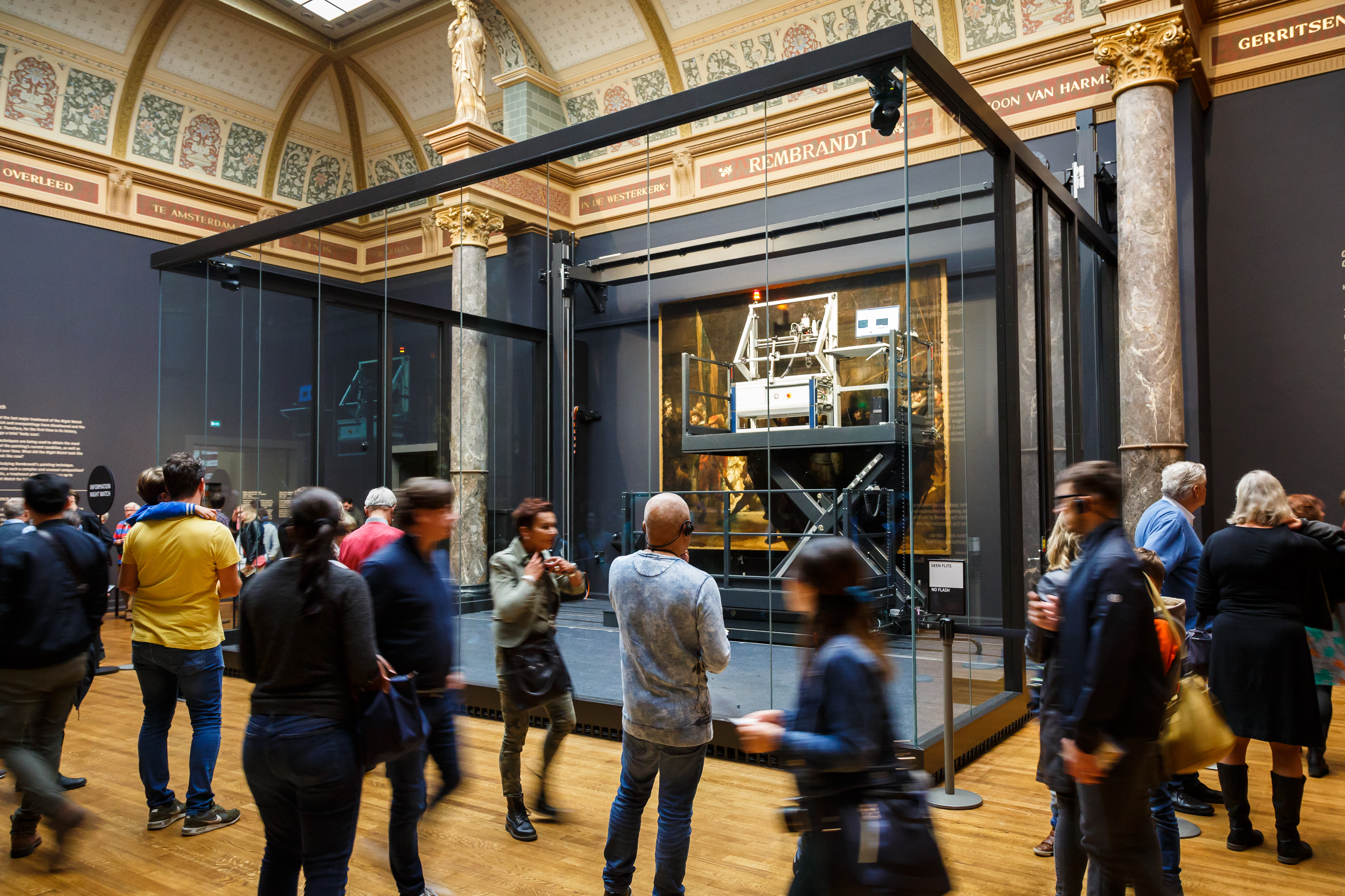 The painting The Night Watch by Rembrandt van Rijn during restoration measures as part of Operation Night Watch. A glass box was built around the painting for the acquisition by means of high-resolution digital photography, X-ray fluorescence analysis and spectroscopy while the museum was in operation.